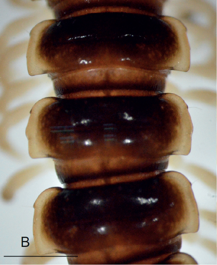 Oxidus gracilis (C.L. Koch, 1847) from Okinawa Island, Japan. Male. Segments 8–9–10. Scale bar = 1 mm